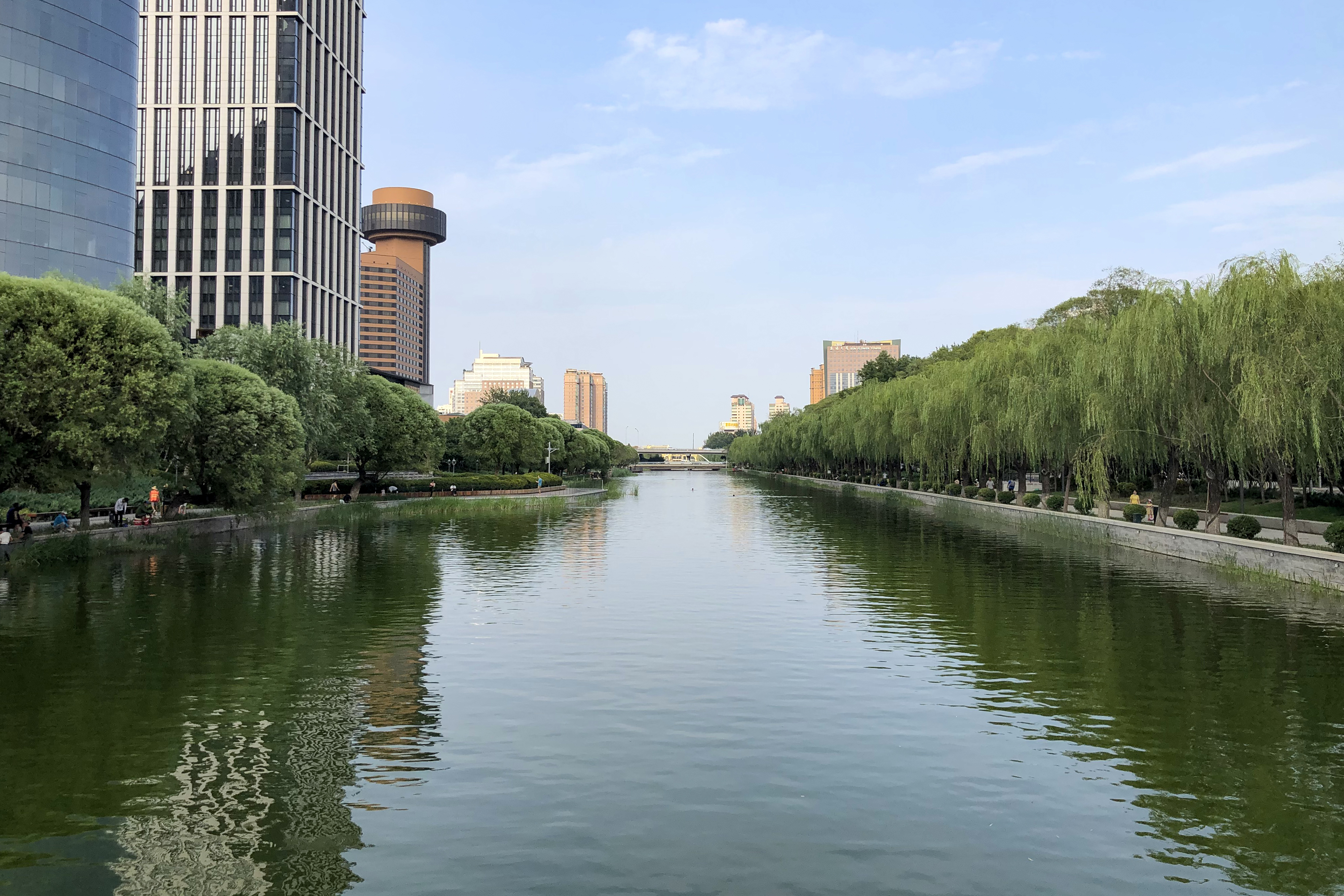 Here, the river serves as the border line between Zuojiazhuang and Sanlitun subdistricts.